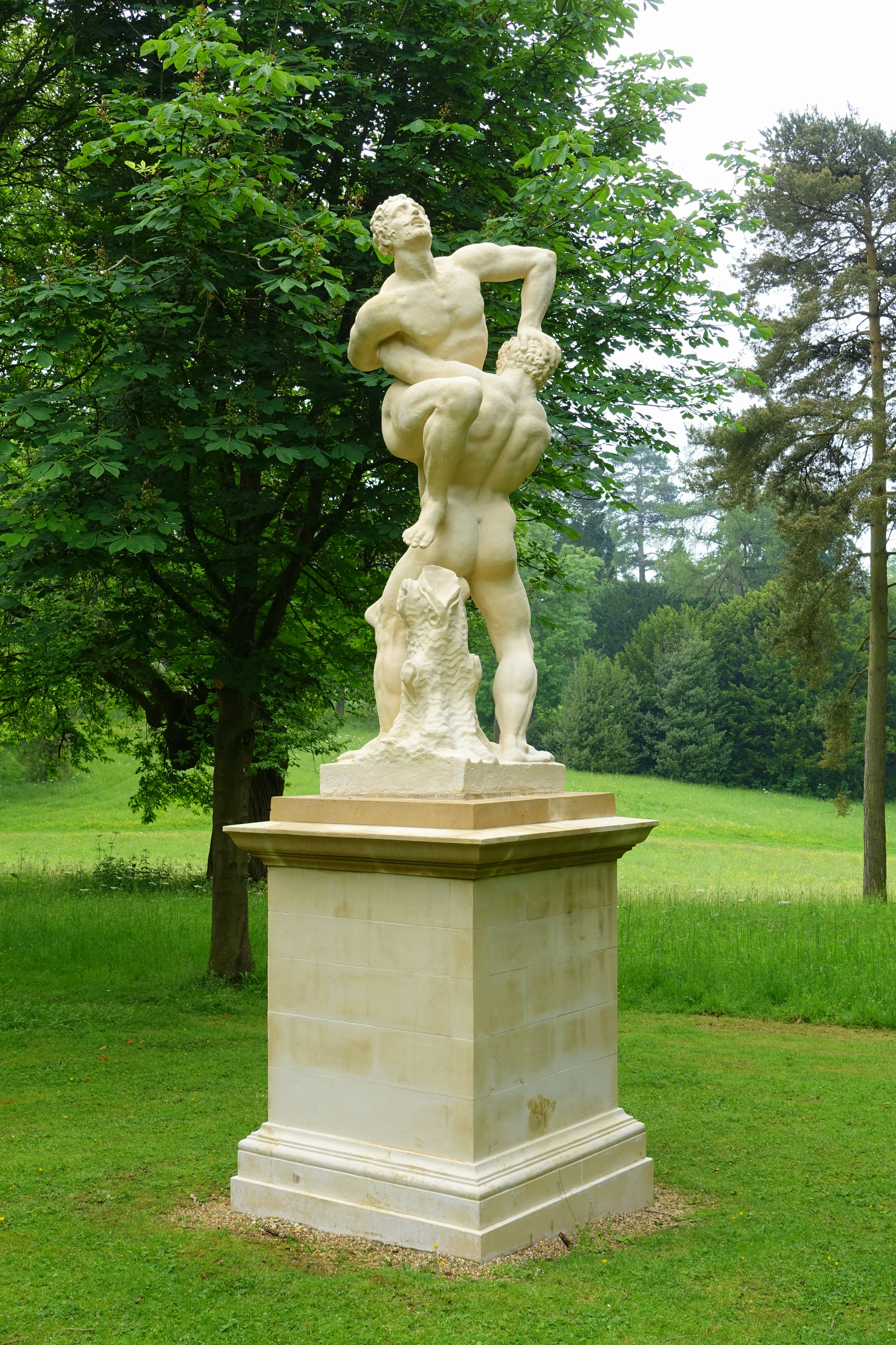 Stowe Gardens - Buckinghamshire, England.